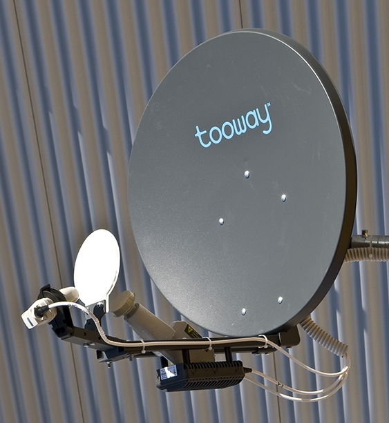 Tooway satellite antenna photo.